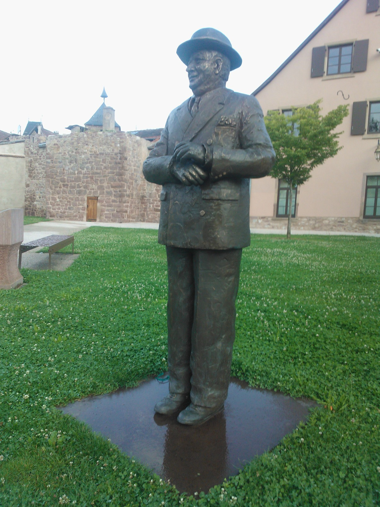 Statue Ettore Bugatti van Mariele Gissinger uit 2009